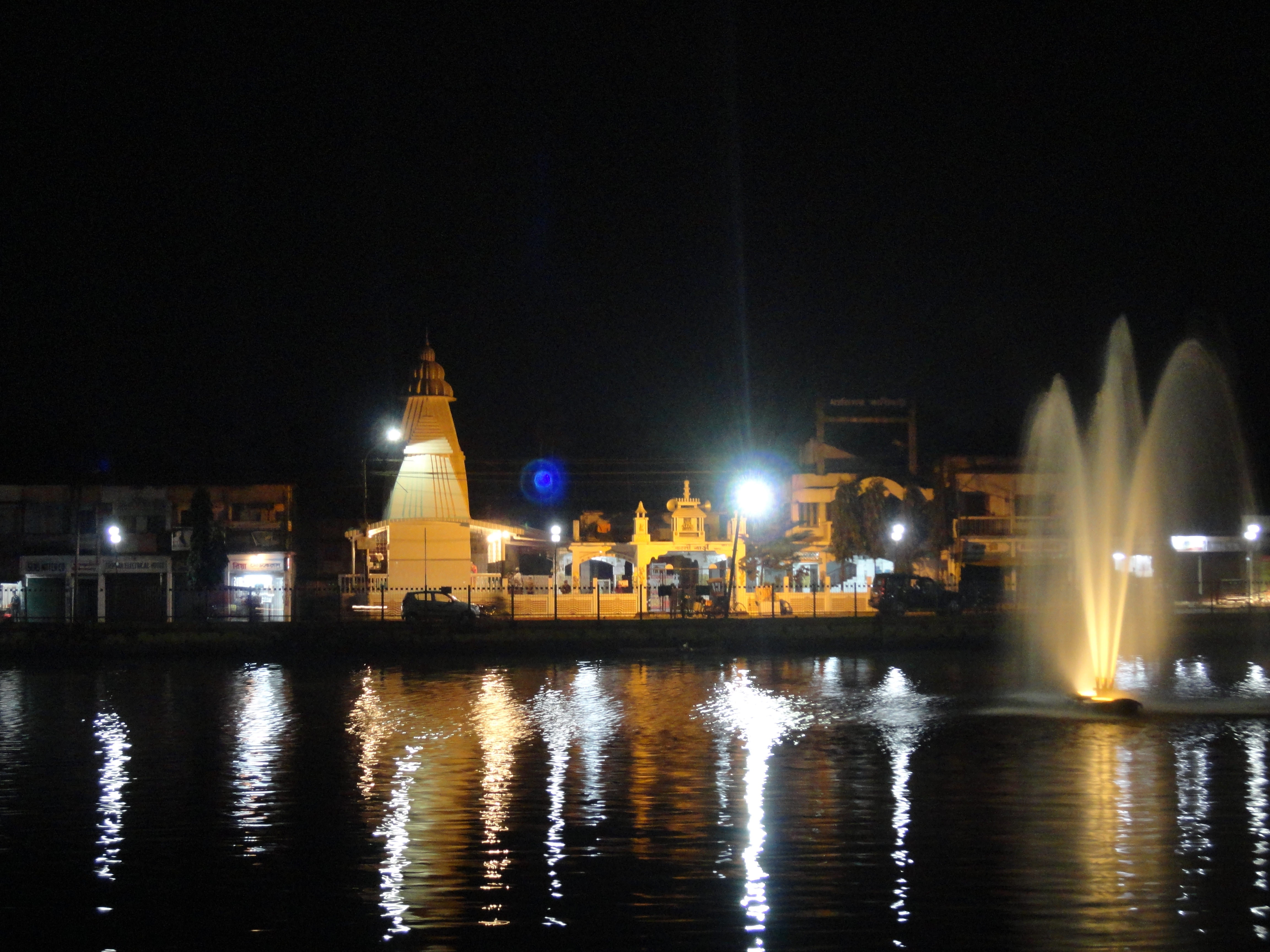 Kali dighi Dharmanagar